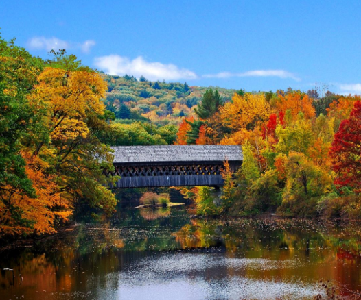 Henniker Bridge crosses over the Contoocook River to connect the NEC campus with the town center.